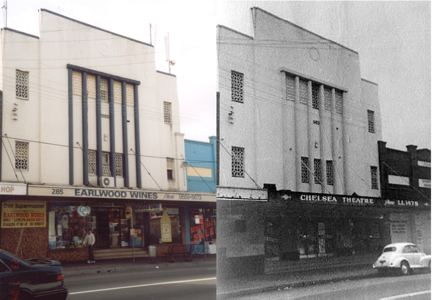 Comparison of 285 Homer St Earlwood. Named the Chelsea Theatre in the 1940s, it is now occupied by Earlwood Wines. The facade has largely been left untouched.